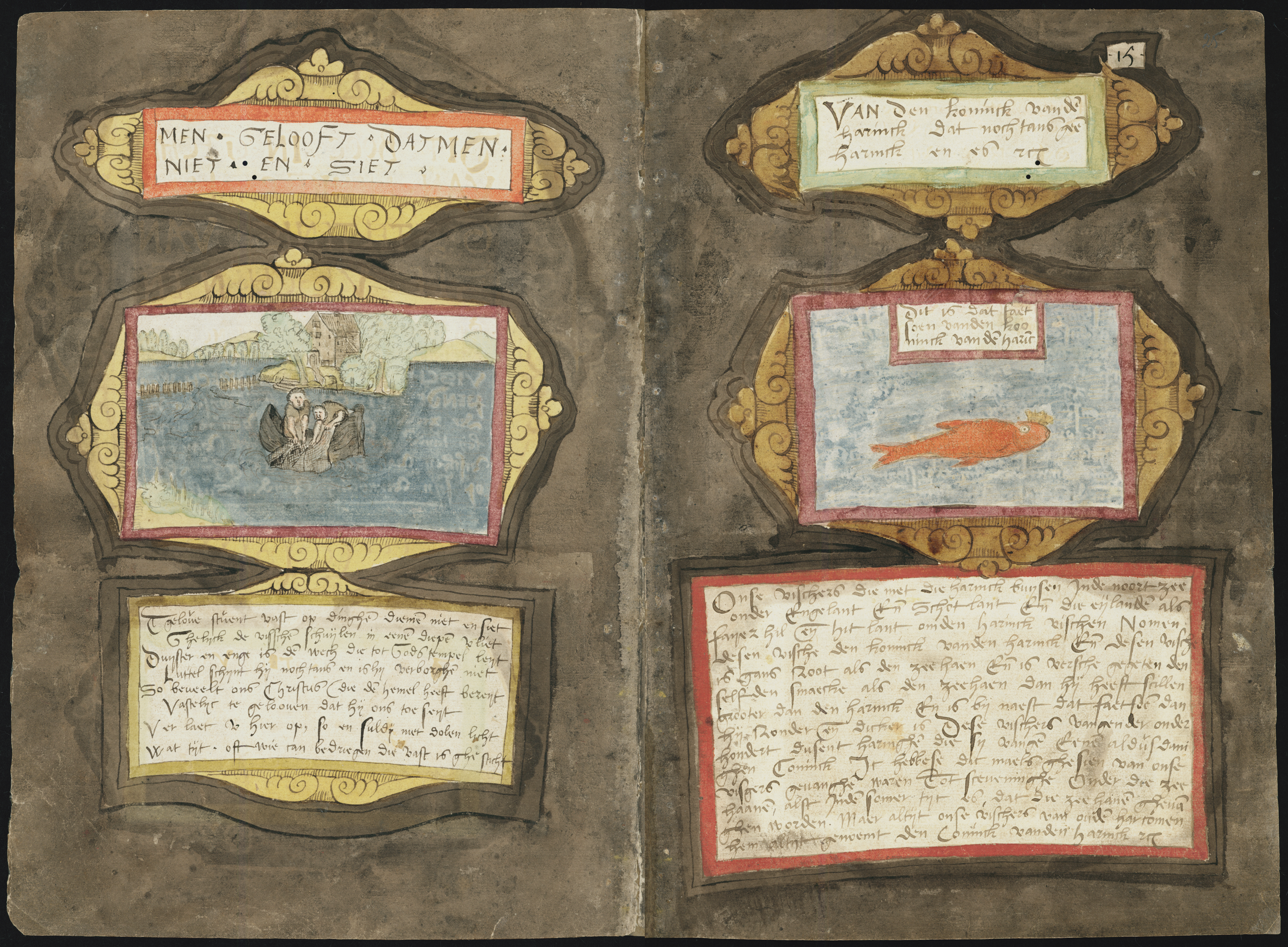 Lefthand side folio 024v and righthand side folio 025r from the Visboeck by Adriaen Coenen